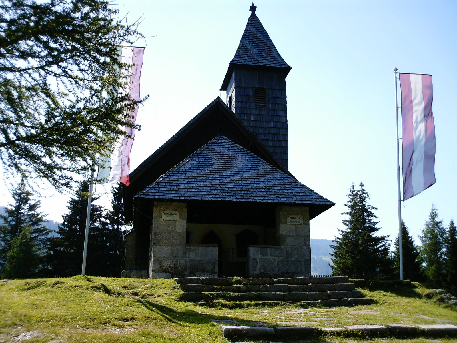 The church on the border line